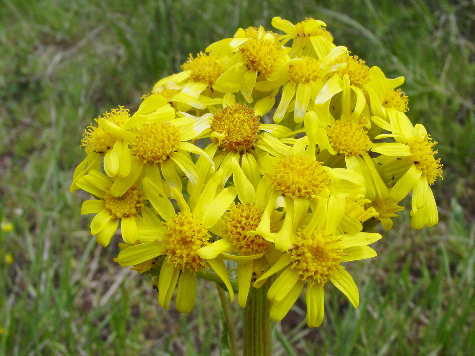 Senecio integerrimus. City of Rocks National Preserve, Idaho, USA.